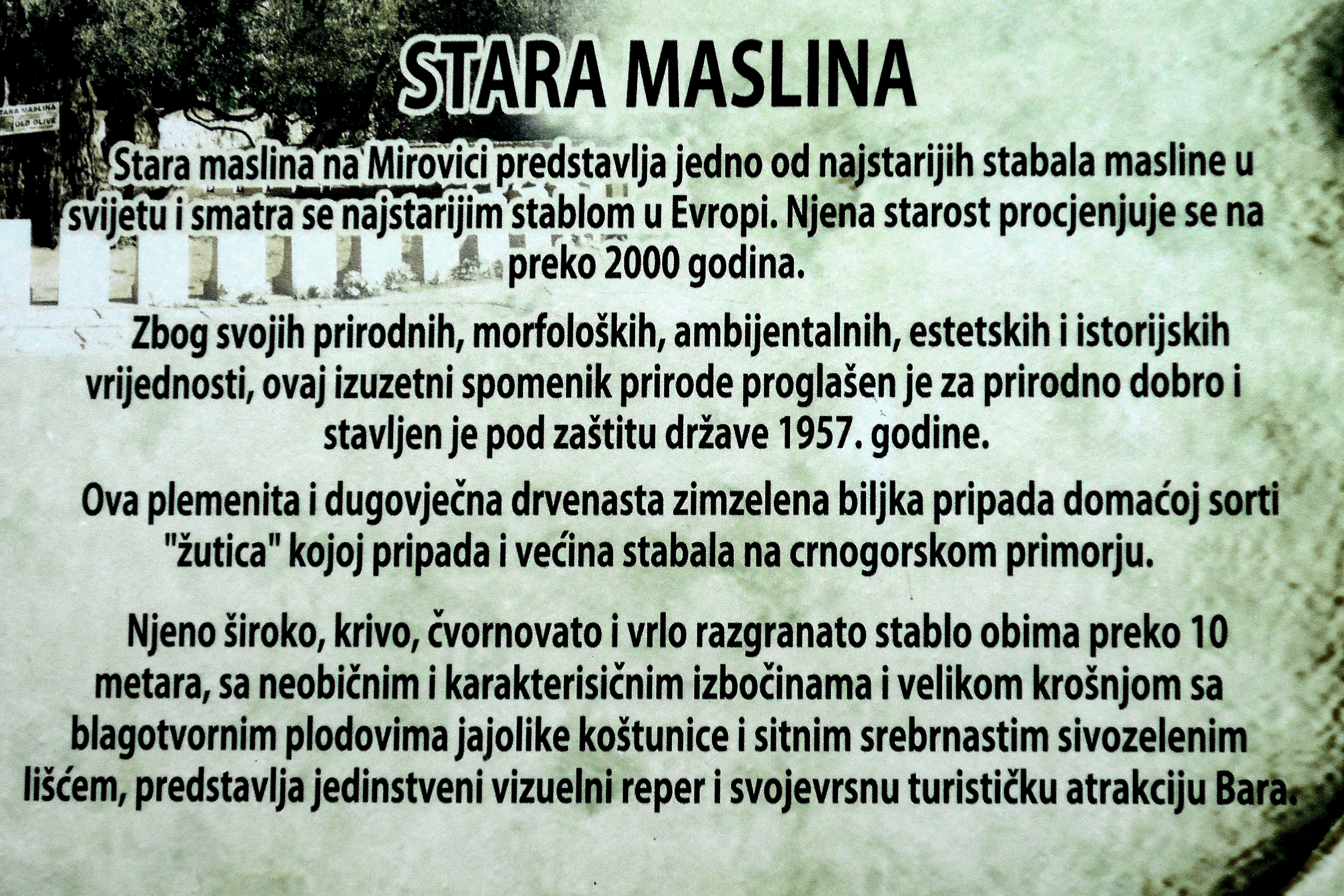 Natural monument "Stara maslina" (Old olive) in Bar, Montenegro - info panel